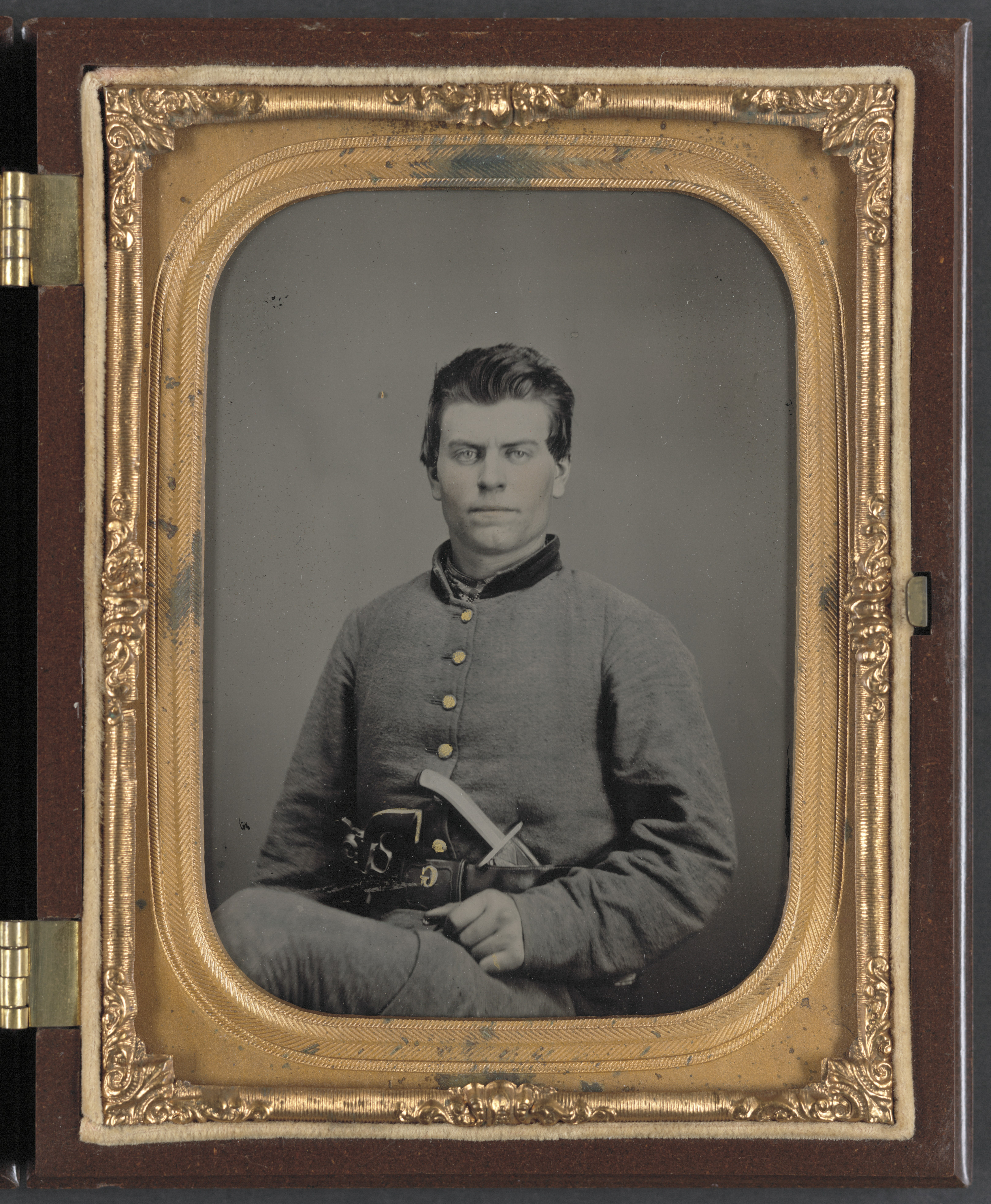 Title: Theophilus Mann of Company G, 1st (Farinholt's) Virginia Infantry Battalion Reserves, with pistol and knife Abstract/medium: 1 photograph : quarter-plate ambrotype, hand-colored ; 12.3 x 10.1 cm (case)